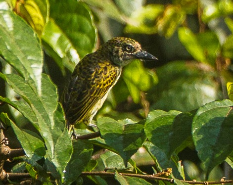 A Speckled Tinkerbird (Pogoniulus scolopaceus) in the Kakum National Park (Ghana)